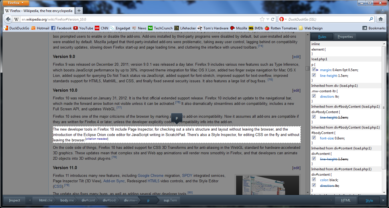 Firefox 10 using the Page Inspector for CSS